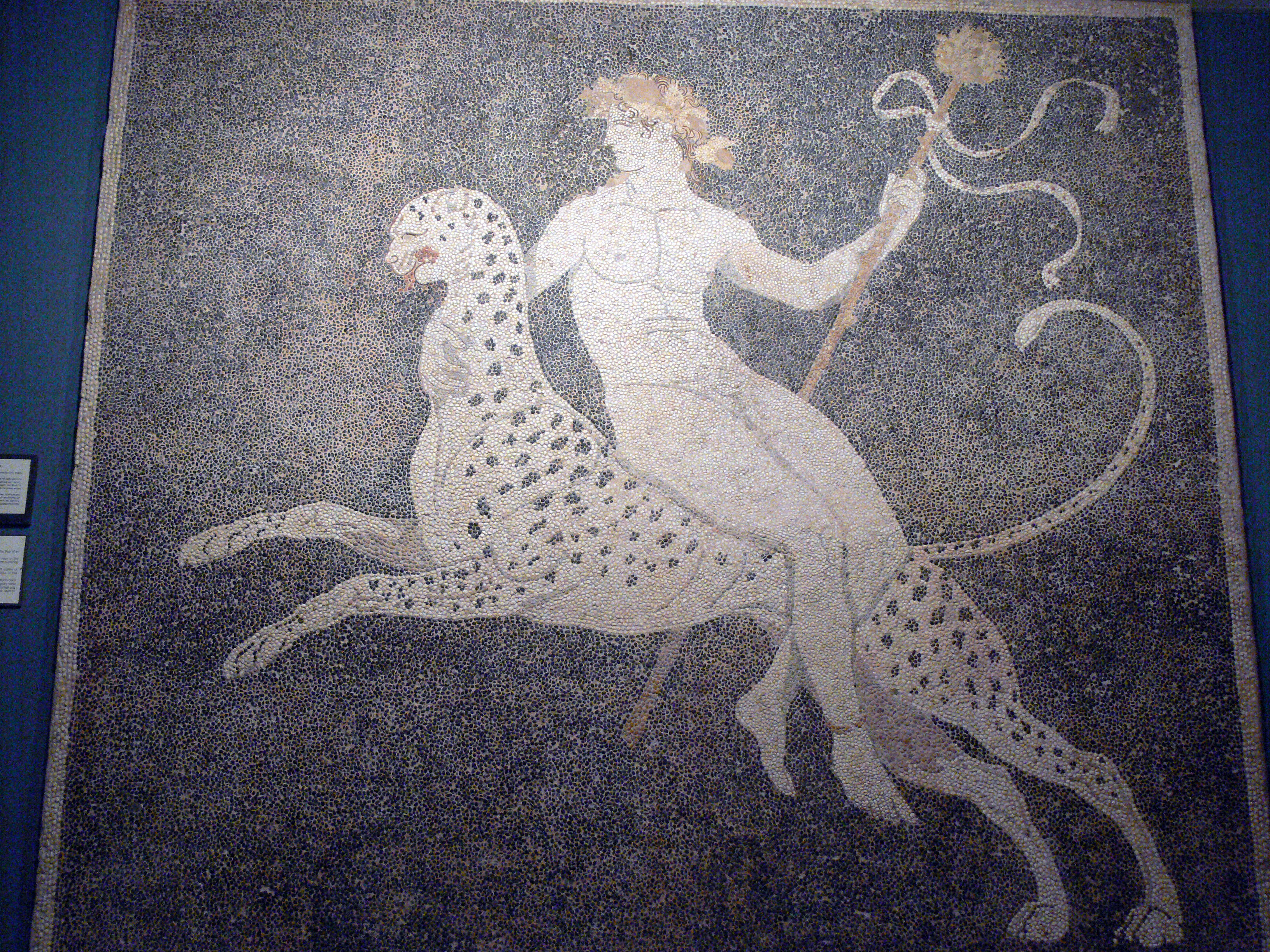 Dionysos riding a panther, mosaic floor in the 'House of Dionysos' at Pella, late 4th century BC, Pella, Archaeological Museum.